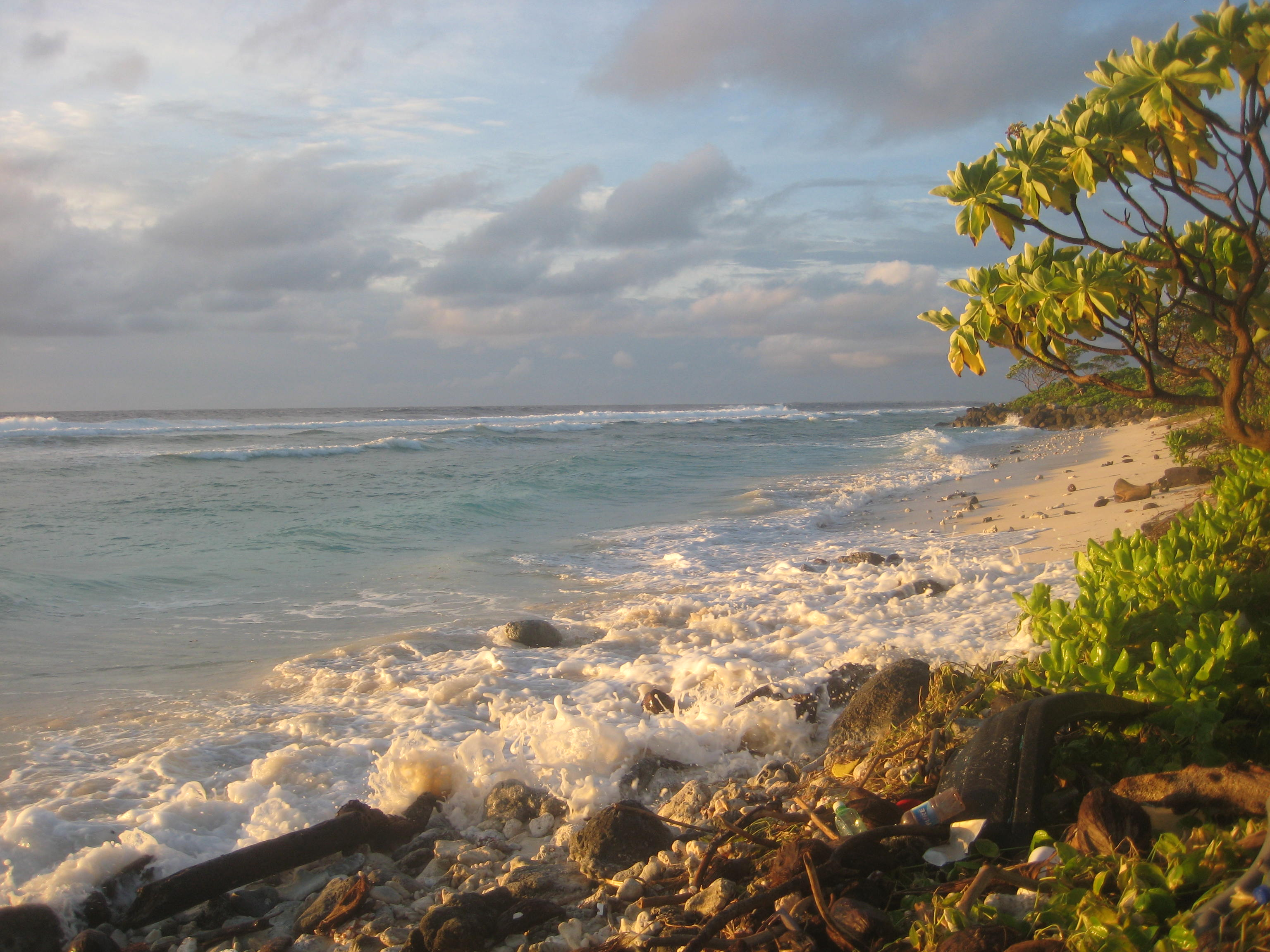 As evening approaches light highlights breaking waves on Gugeegue Island's ocean beach.